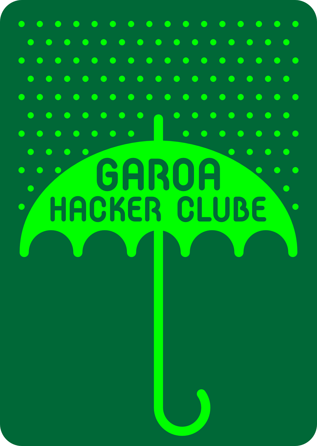 Logotipo do Garoa Hacker Clube